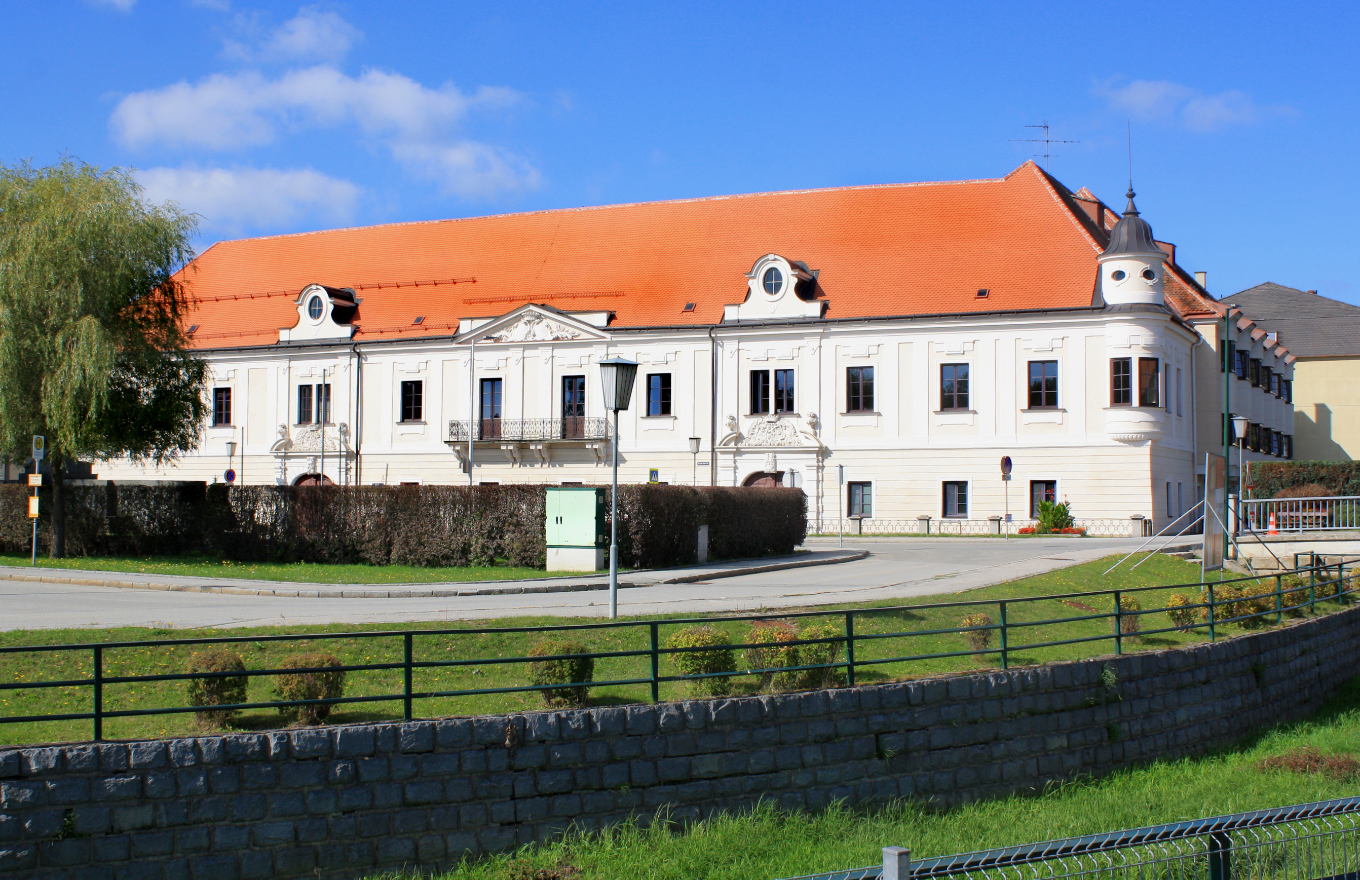 Schrems Castle, Austria